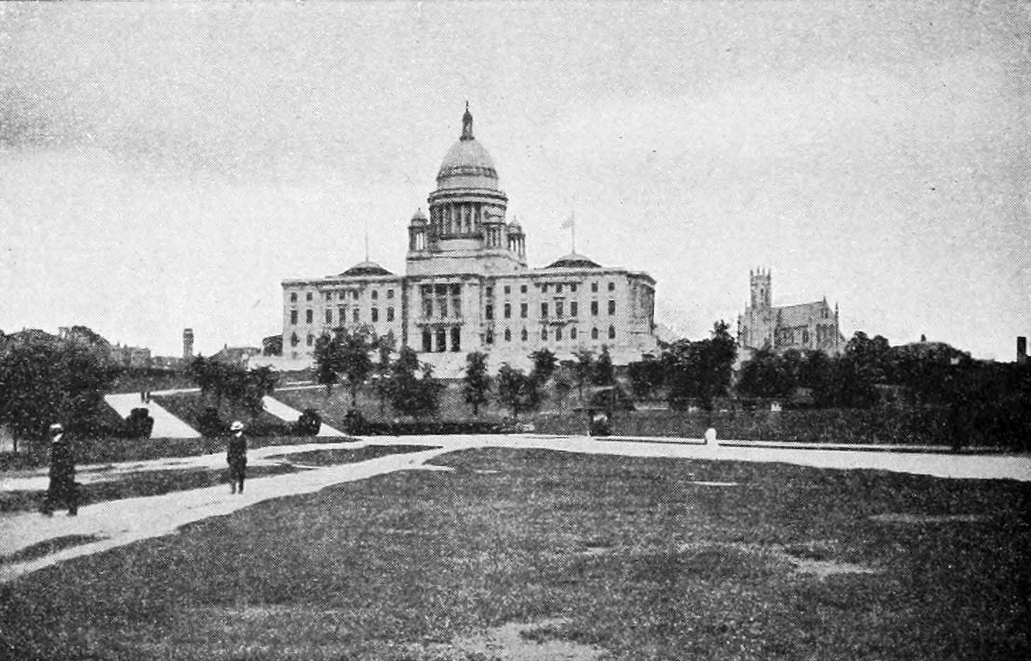 Rhode Island State House